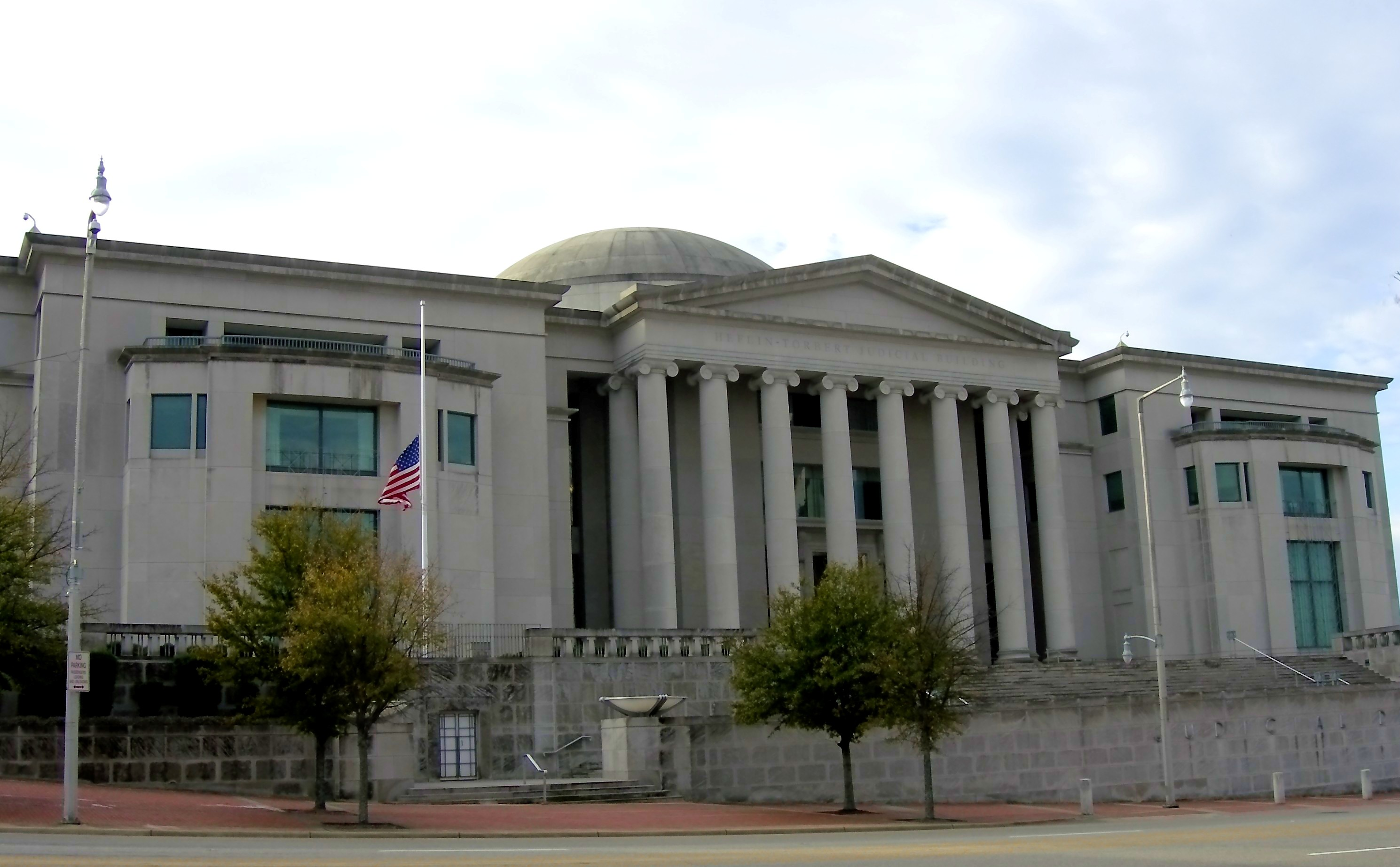 The Heflin-Torbert Judicial Center in Montgomery, Alabama.